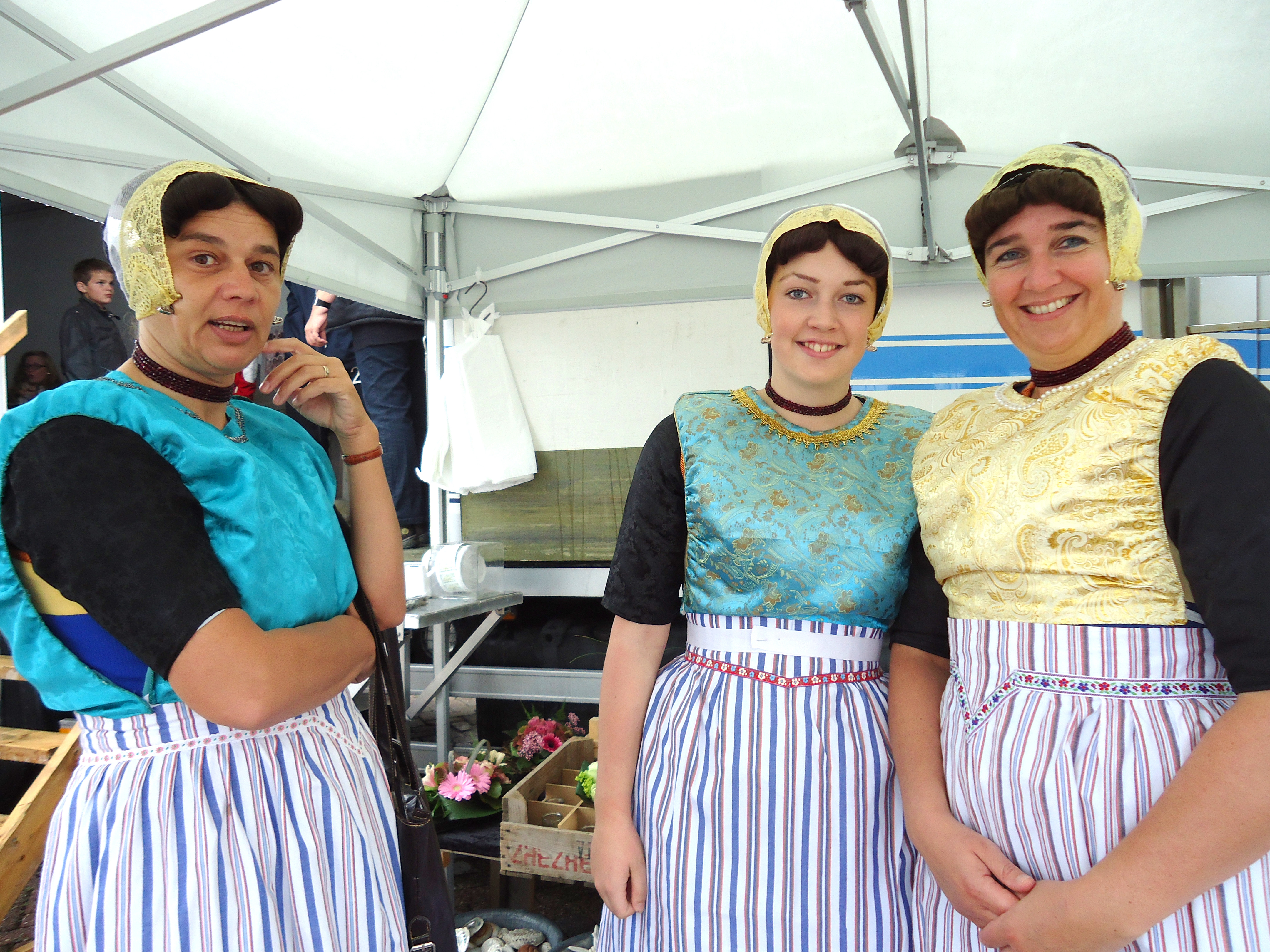 Tree ladies in traditional Urker dresses